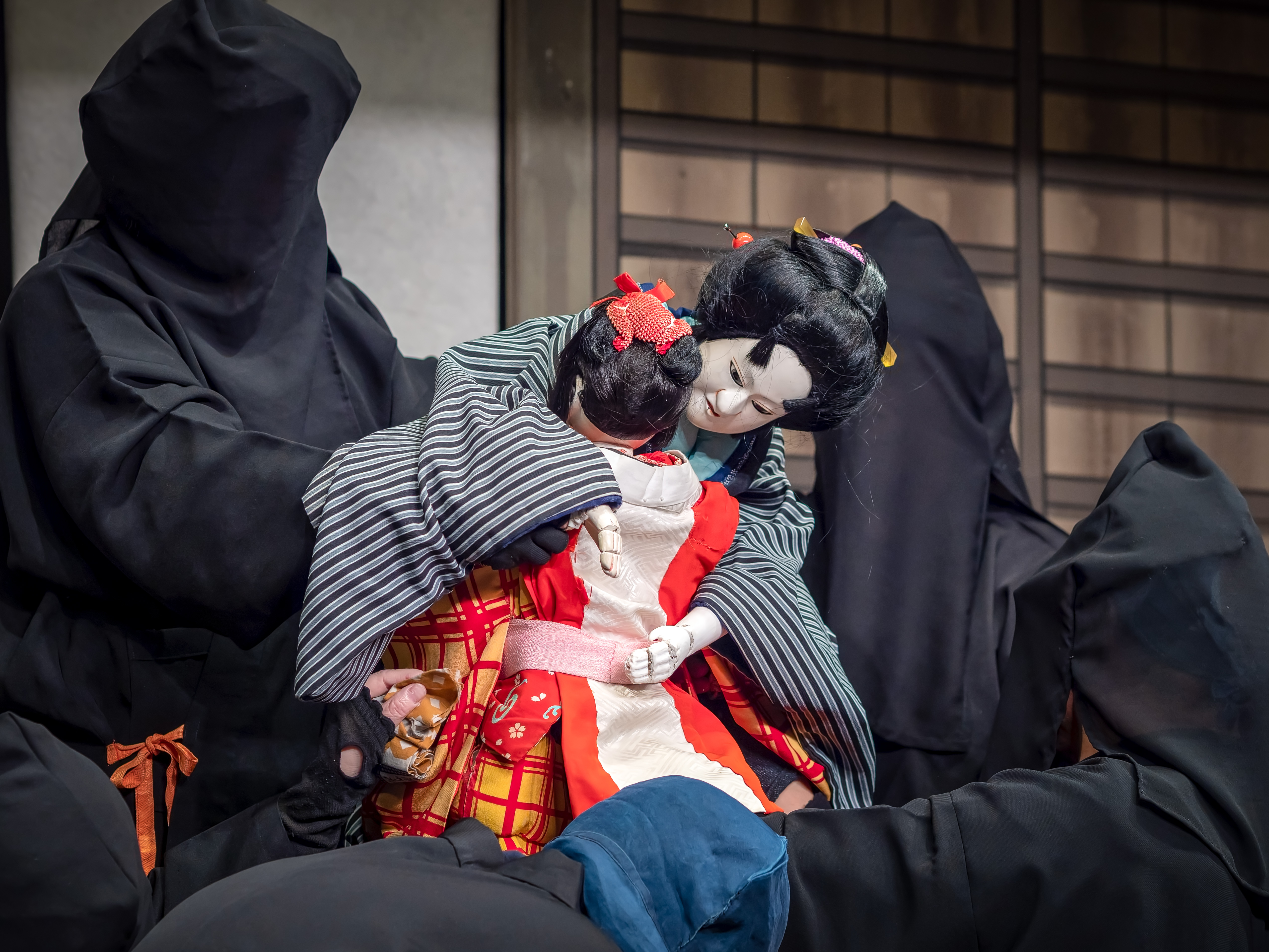 Traditional puppet theatre near Tokushima